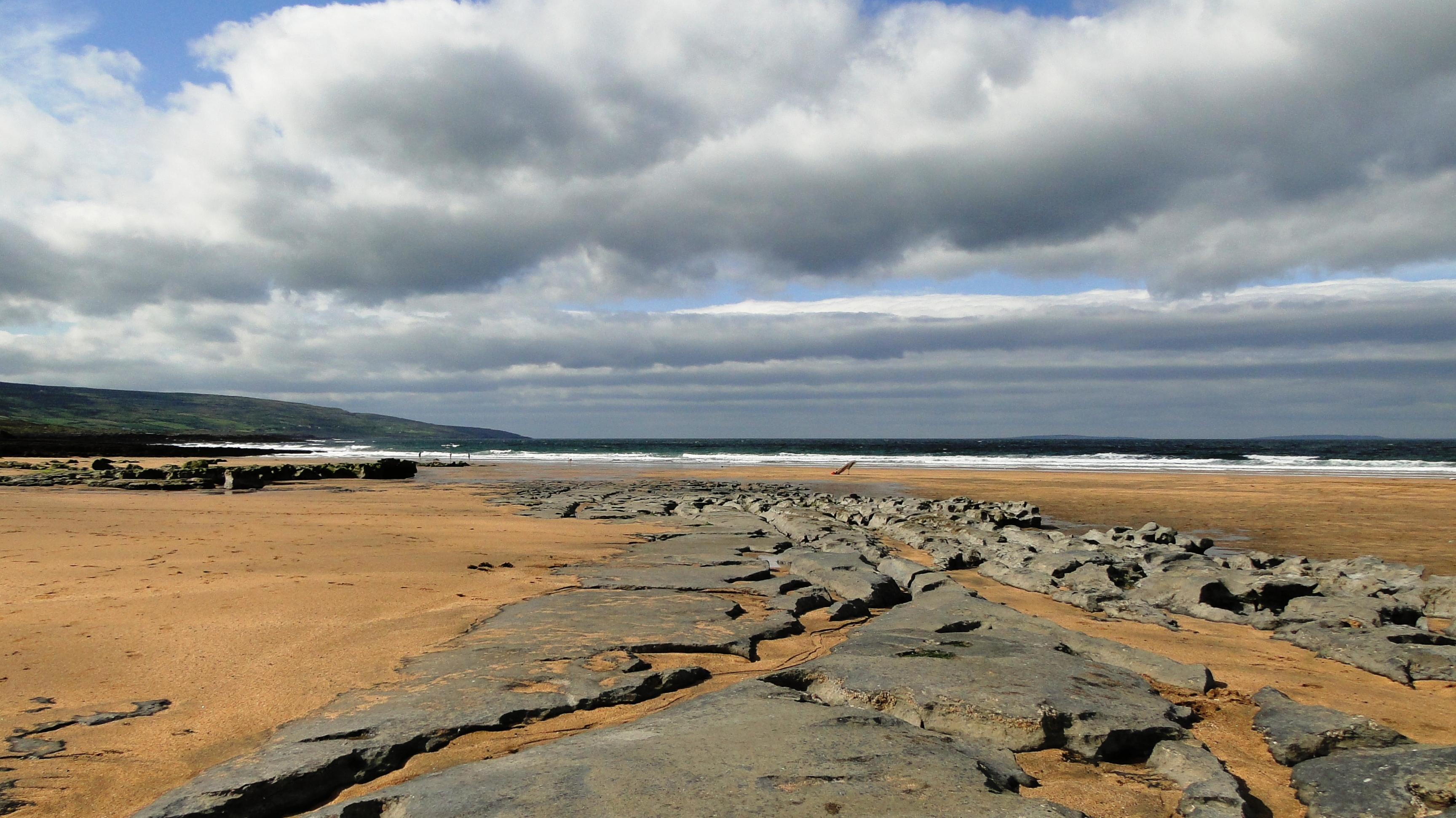 The beach at Fanore, County Clare, Ireland; August 2016. Low tide with limestone exposed. Aran Islands in the background, right.